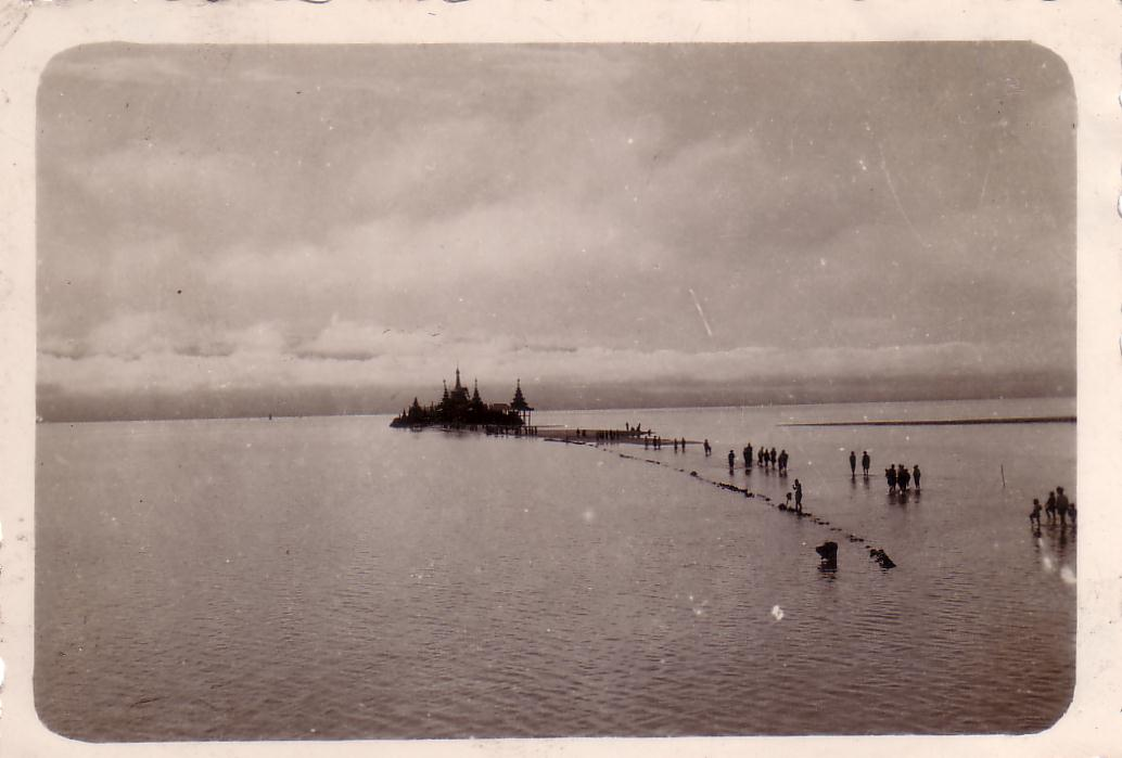 Indawgyi Lake in Kachin State, Myanmar. A natural causeway appears at festival time to the island pagoda.